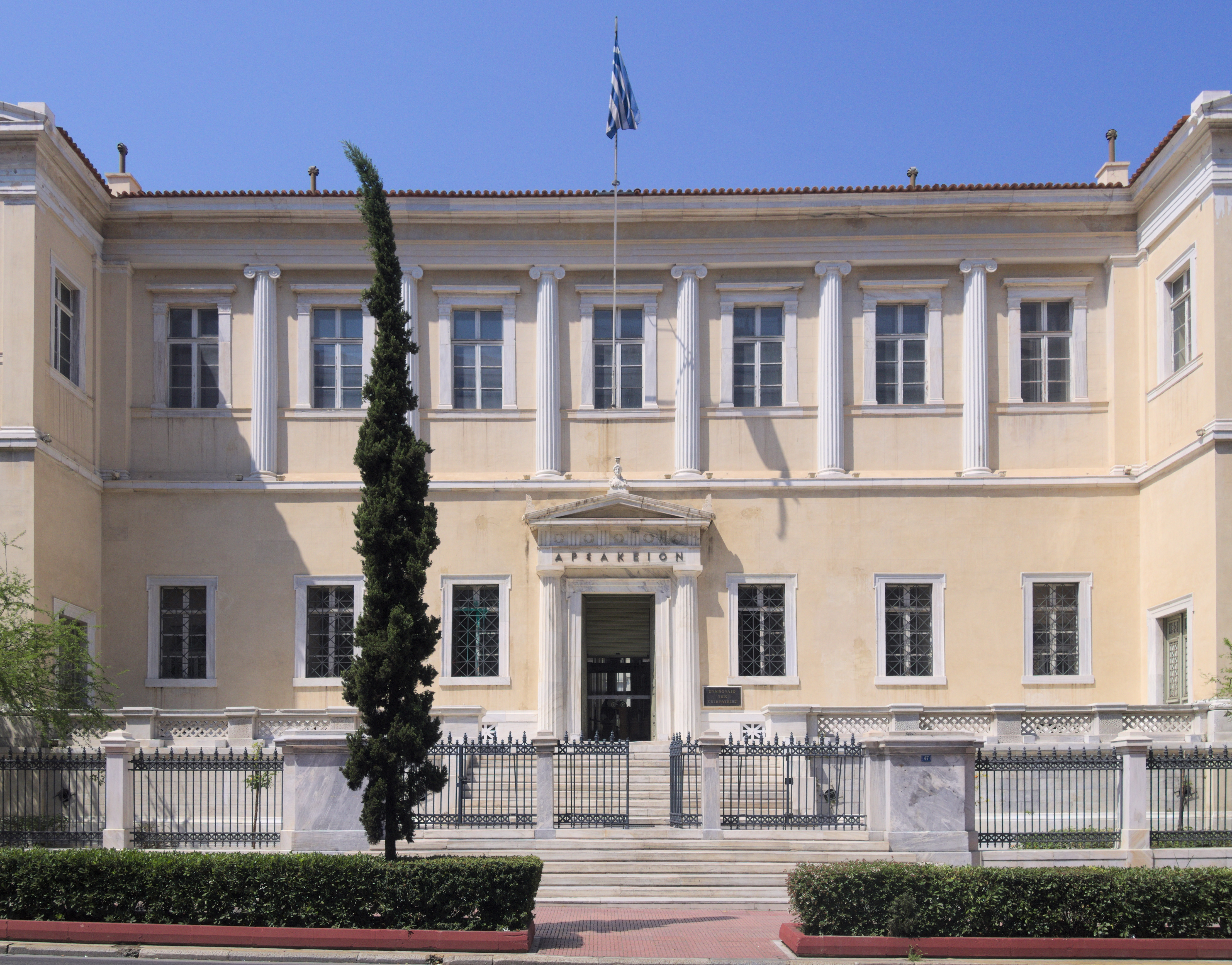 The north-east facade of the Arsakeio, at Panepistimiou avenue, Athens. Nowadays it houses the Council of State of Greece.